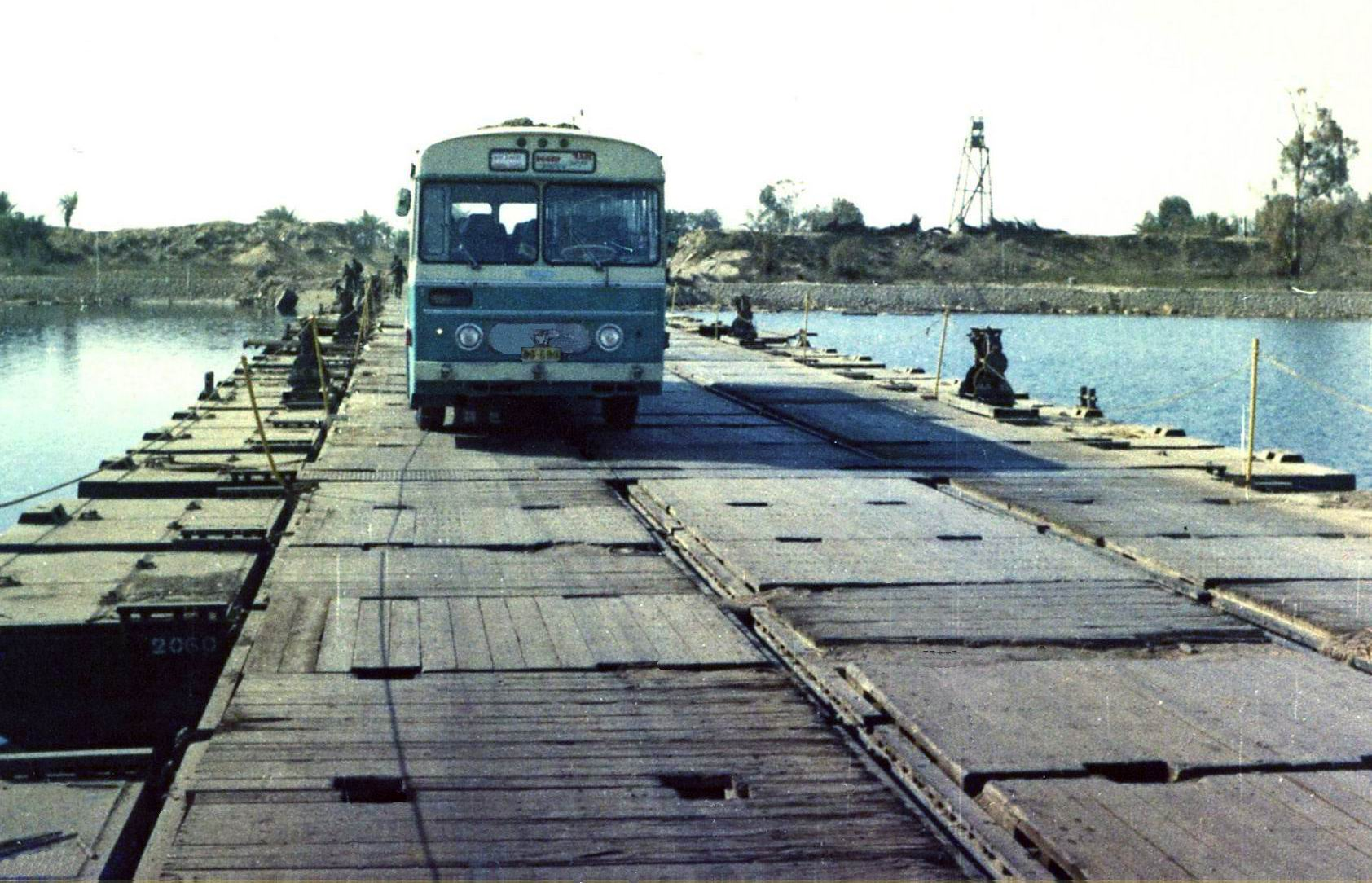 Israel Defense Forces